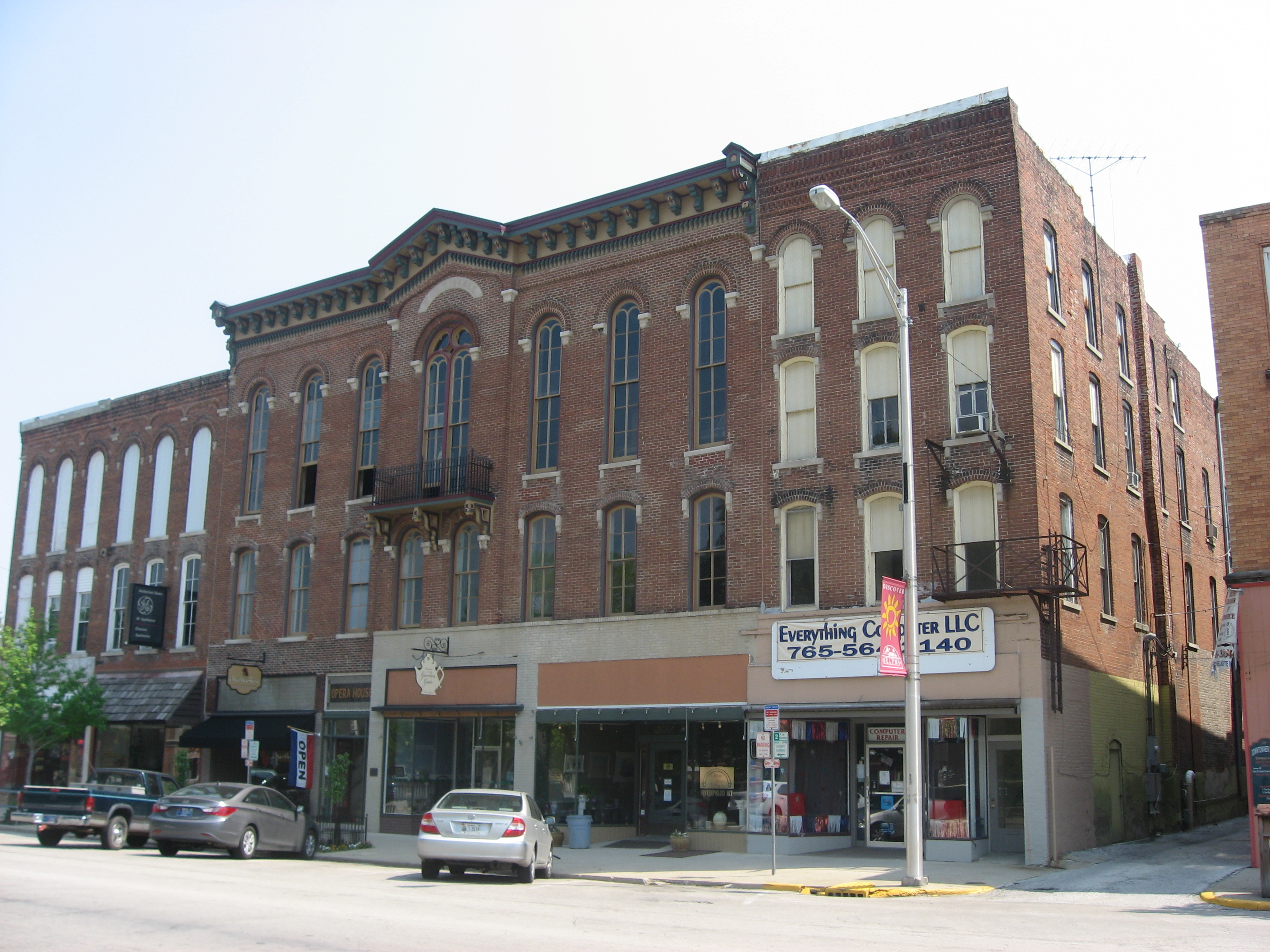 Front and southern side of the Delphi City Hall, located at 105-109 Washington Street in Delphi, Indiana, United States. Built in 1865, it is listed on the National Register of Historic Places, and it is part of a Register-listed historic district, the Delphi Courthouse Square Historic District.